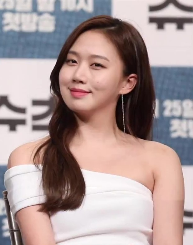 Go Sung-hee at "Suits" conference, 23 April 2018